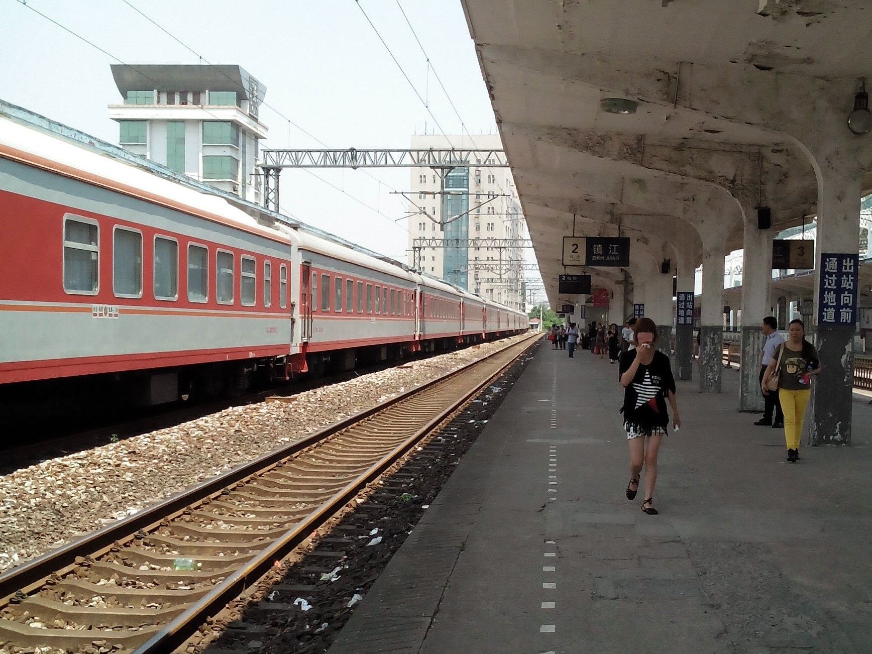 201407 Coaches of K1185 at Zhenjiang Station